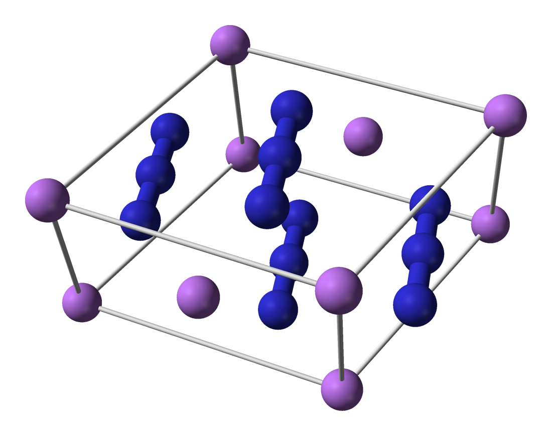 Ball-and-stick model of the unit cell of lithium azide, LiN3. Structural data from G. E. Pringle and D. E. Noakes (February 1968). "The crystal structures of lithium, sodium and strontium azides". Acta Cryst. 'B24' (2): 262-269.